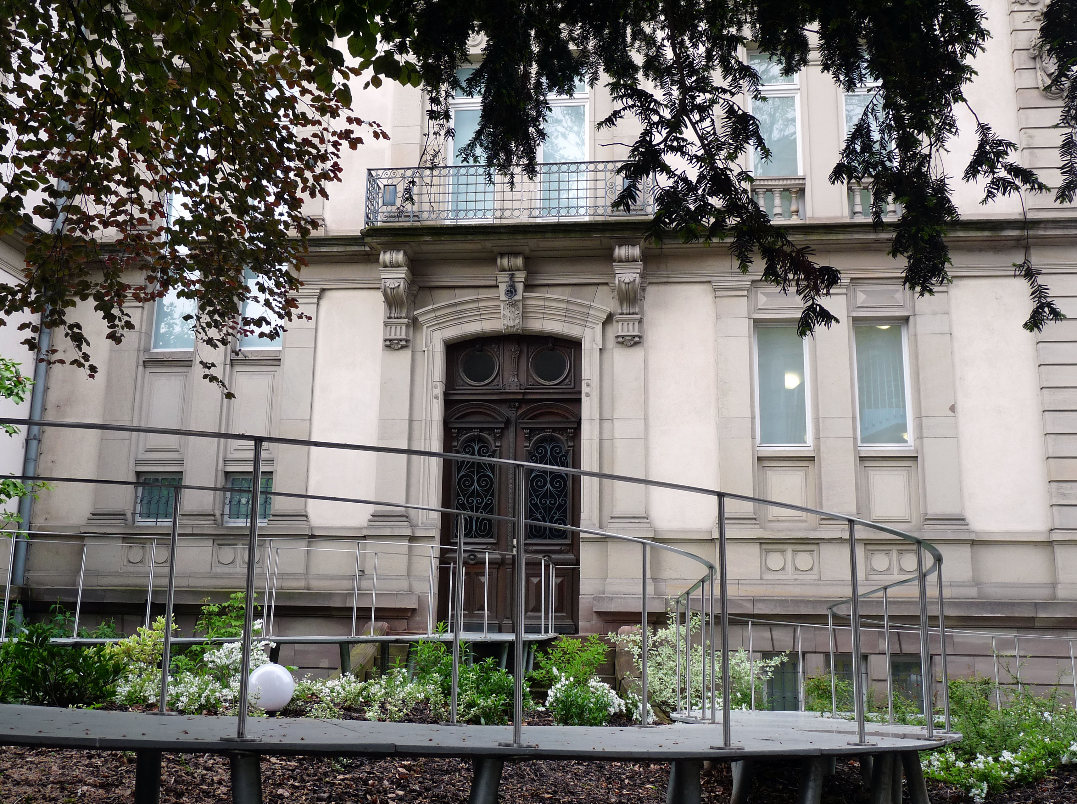 Musée Tomi Ungerer (Strasbourg)